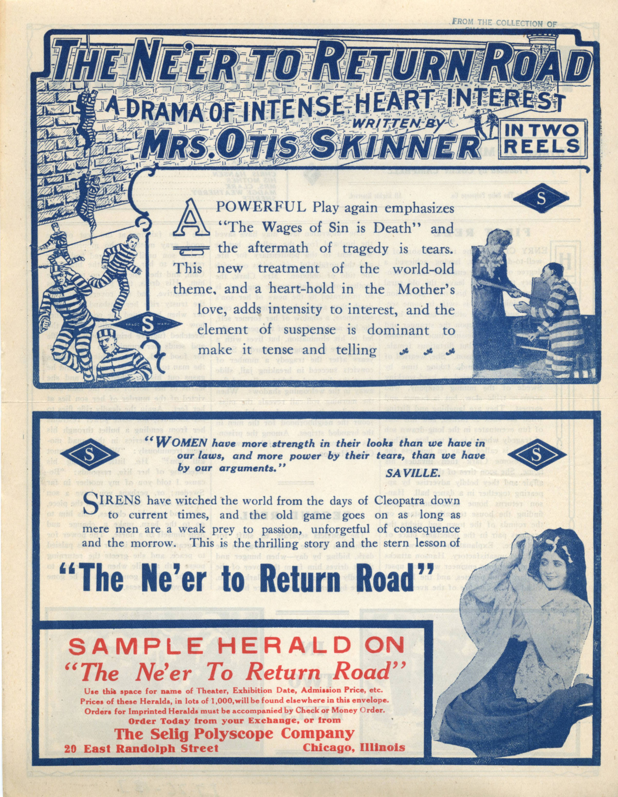 Release flier for THE NE'ER TO RETURN ROAD, 1913 (Page 1)